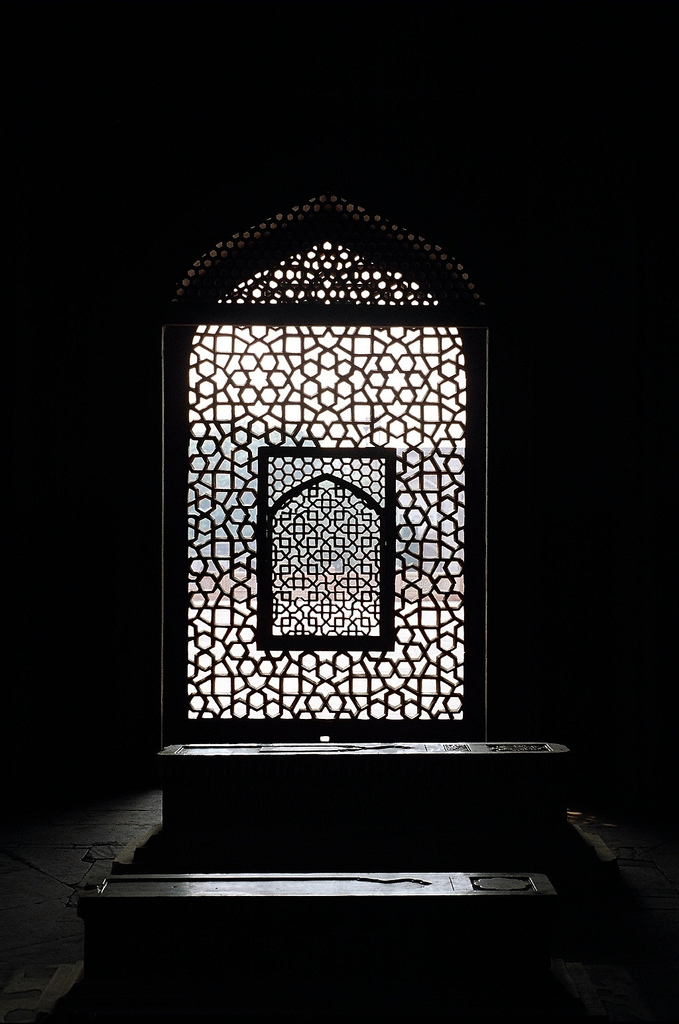 Jaali or marble lattice screen showing a mihrab, Humayun's tomb.